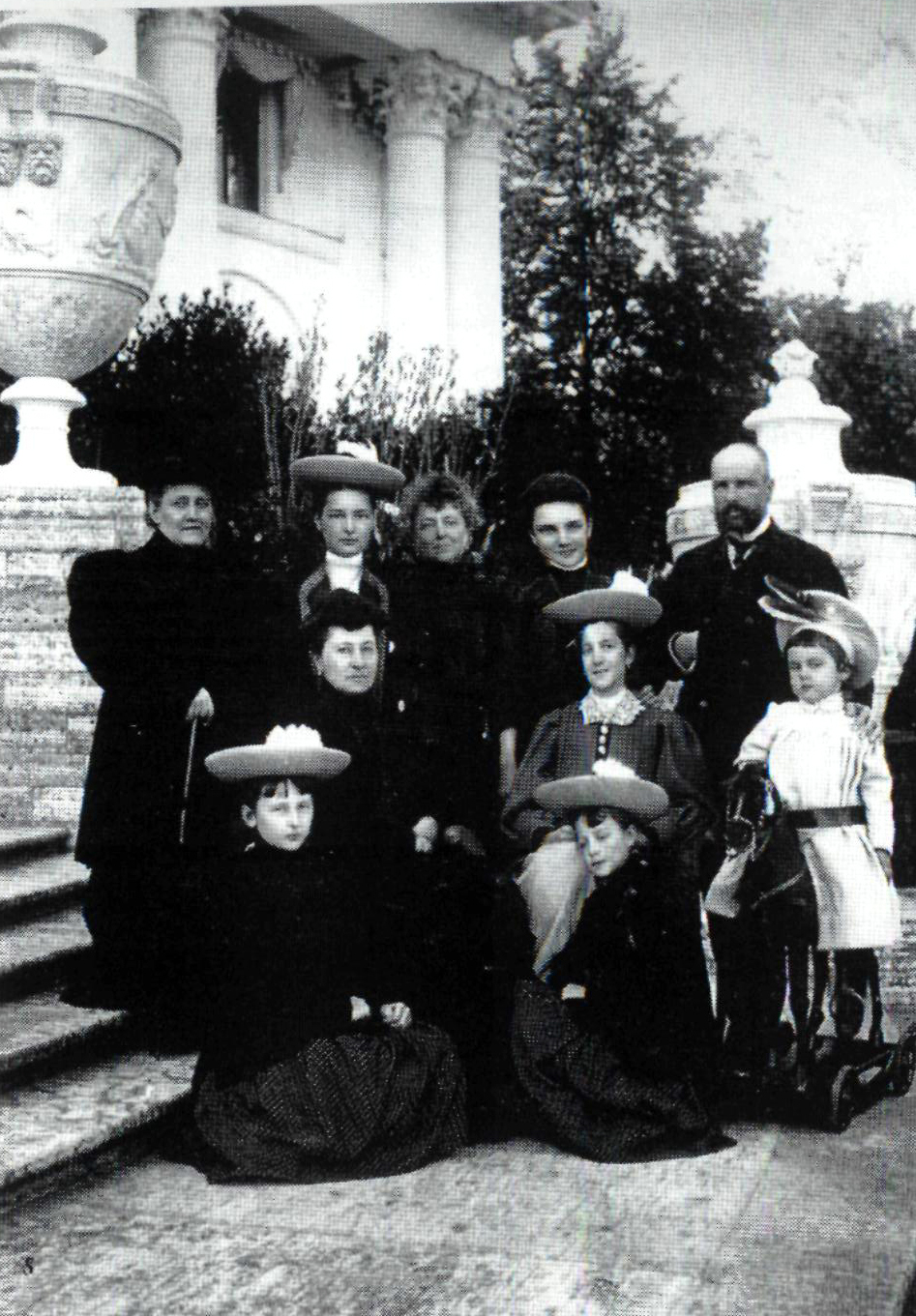 Family of russian prime minister Stolypin